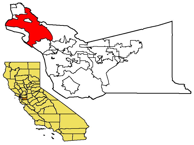 Map of the City of Oakland within Alameda County, with County highlighted in California. I (user:Mackerm) created this map from US Census Bureau data. I release it to Public Domain